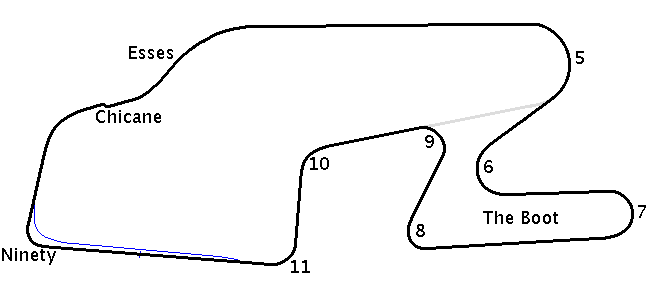 The Watkins Glen Grand Prix course from 1975 to 1983.